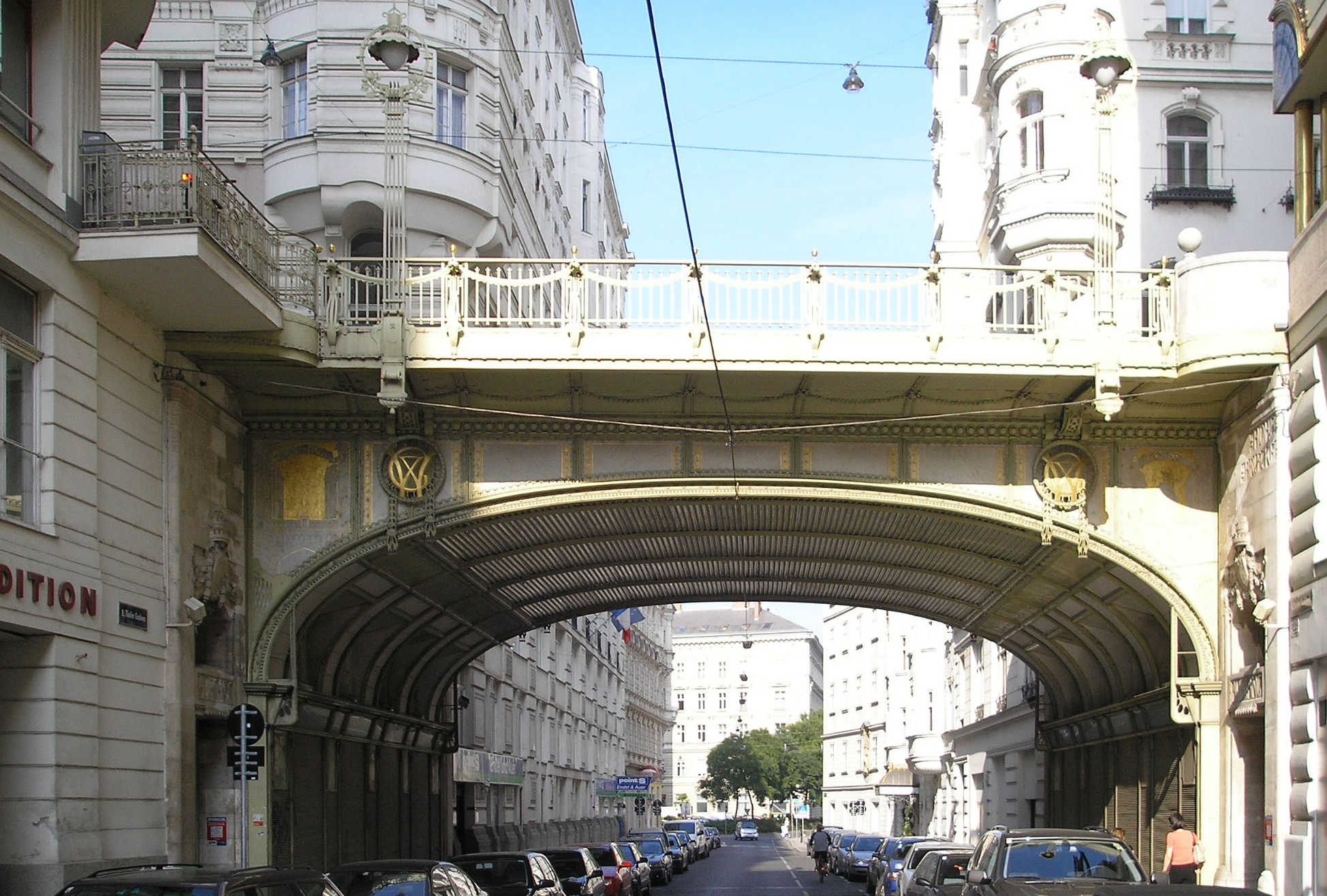 Image of the iron bridge over the Tiefer Graben street in Vienna's first district Innere Stadt.